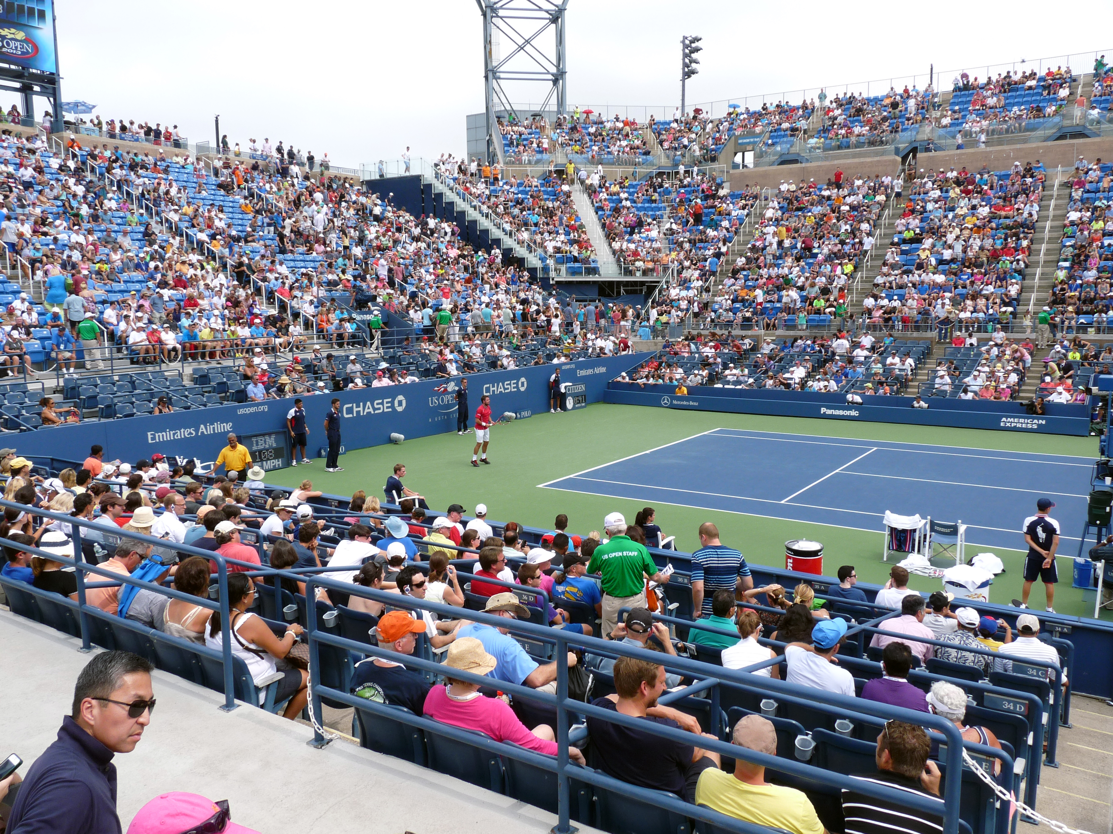 US Open 2013 – Men's Singles 3rd Round (Louis Armstrong Stadium) – Stanislas Wawrinka [9] vs. Cyprus Marcos Baghdatis: 6–3, 6–2, 61–7, 7–67